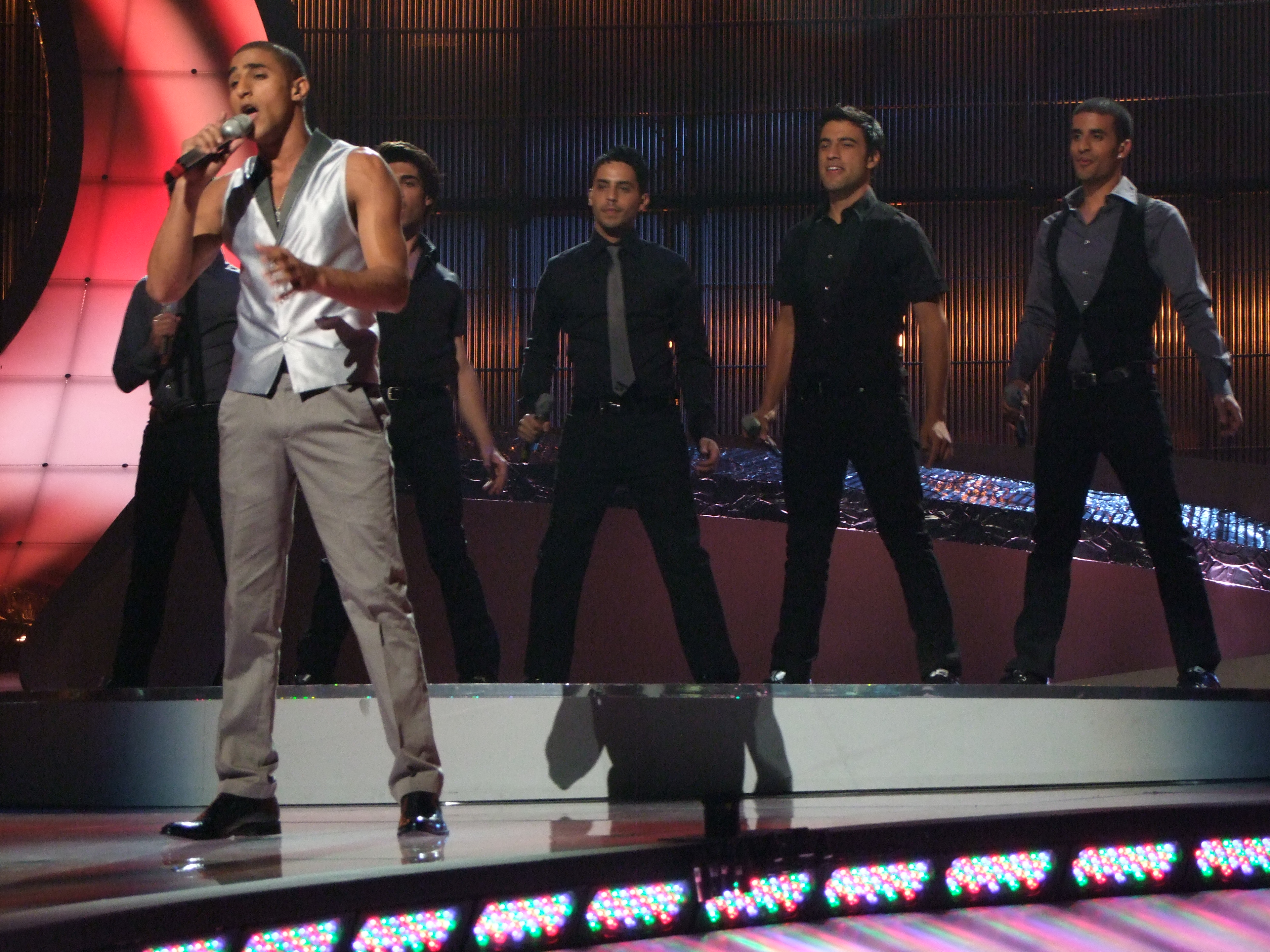 Eurovision Song Contest 2008, 1st semifinalIsrael: Boaz Mauda, The fire in your eyes